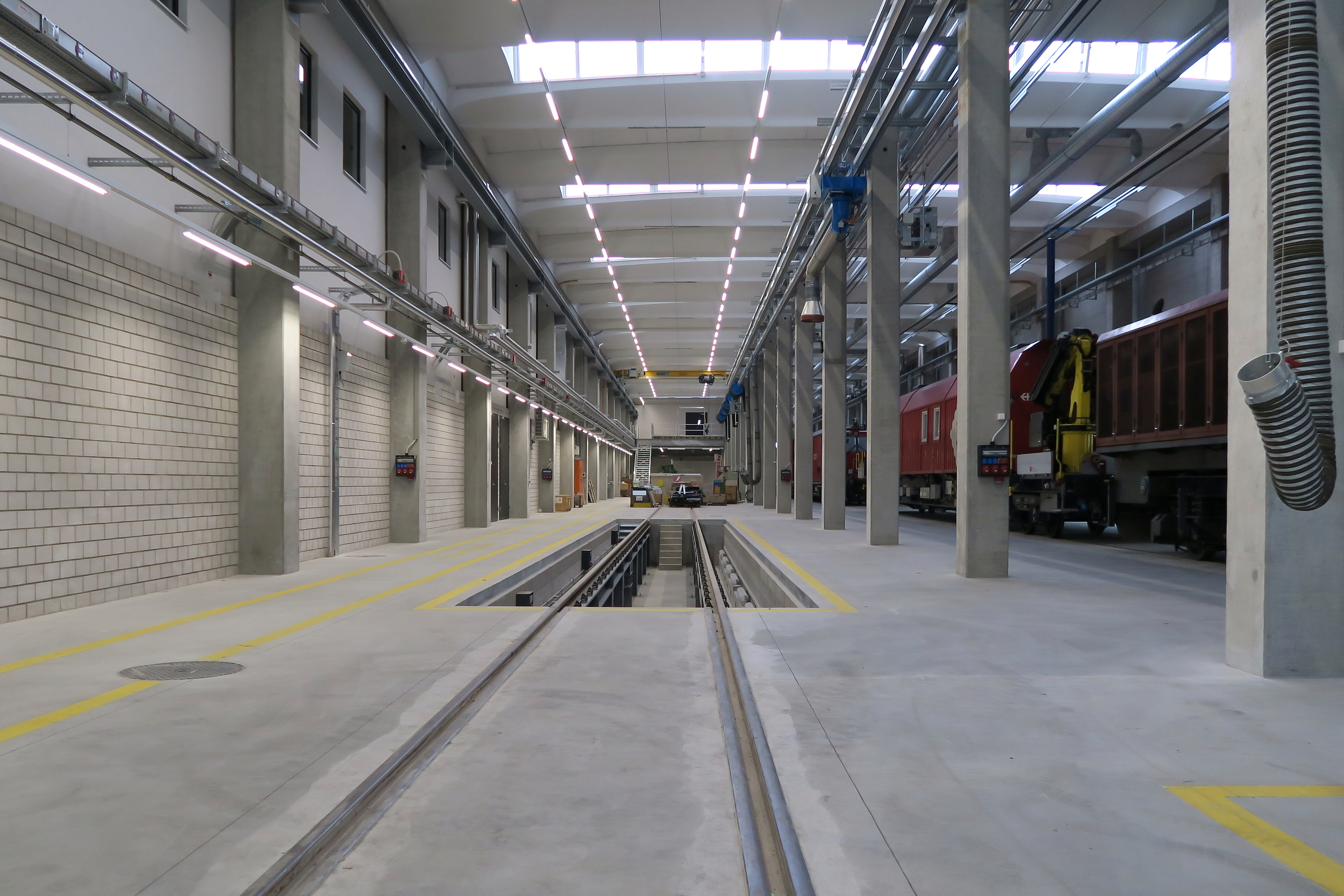 The vehicle hall in the new operations building (EIZ) for railway line maintenance and intervention. It was built for NEAT, the New Alpine Transversale and is equiped currently. Switzerland, Dec 4, 2015. EIZ = Erhaltungs- und Interventionszentrum